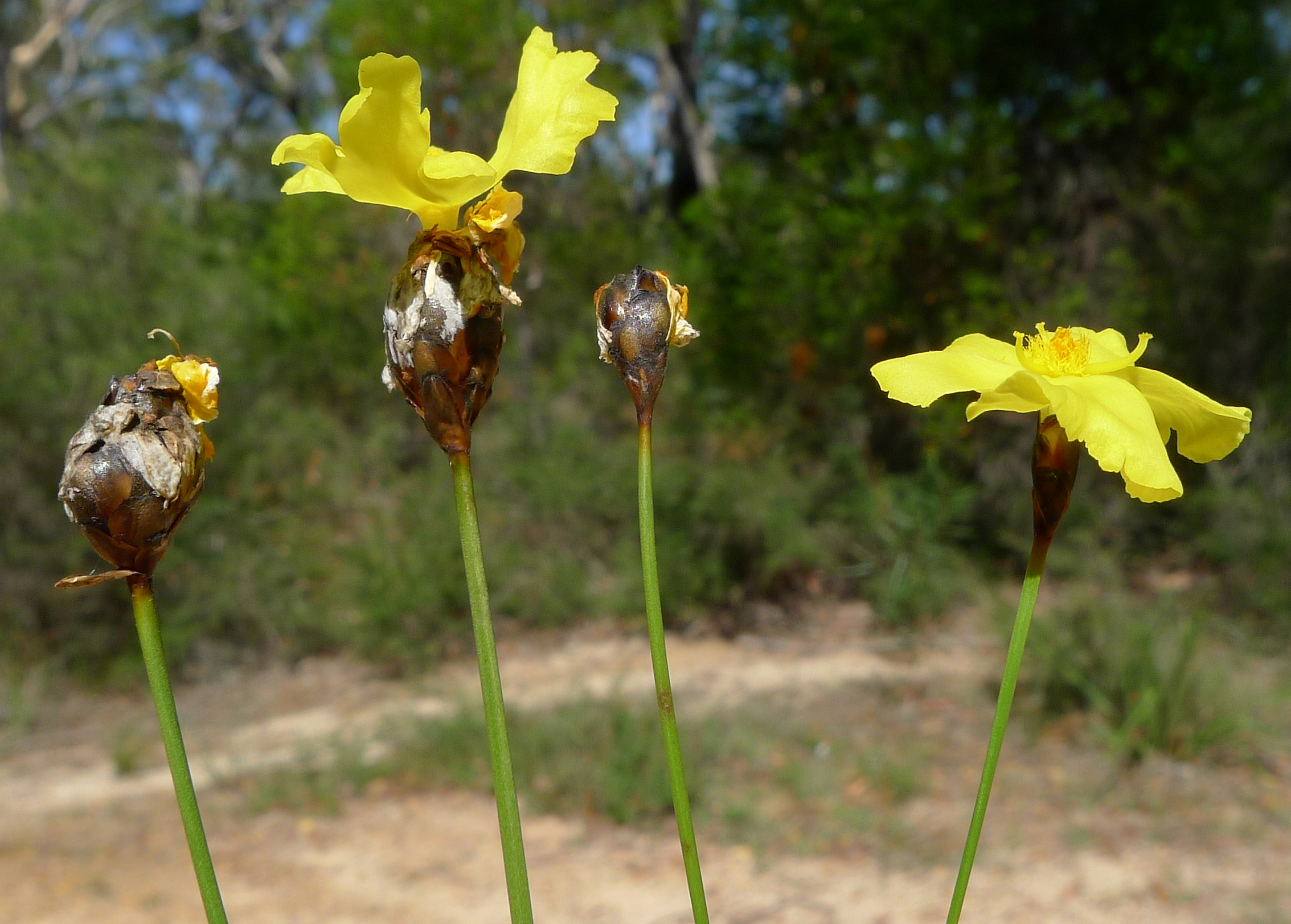 On the left Xyris bracteata, with ovoid flower heads, and on the right, Slender Yellow-eye, Xyris gracilis, with elipsoid flower heads. Dharawal National Park, NSW Australia, January 2014